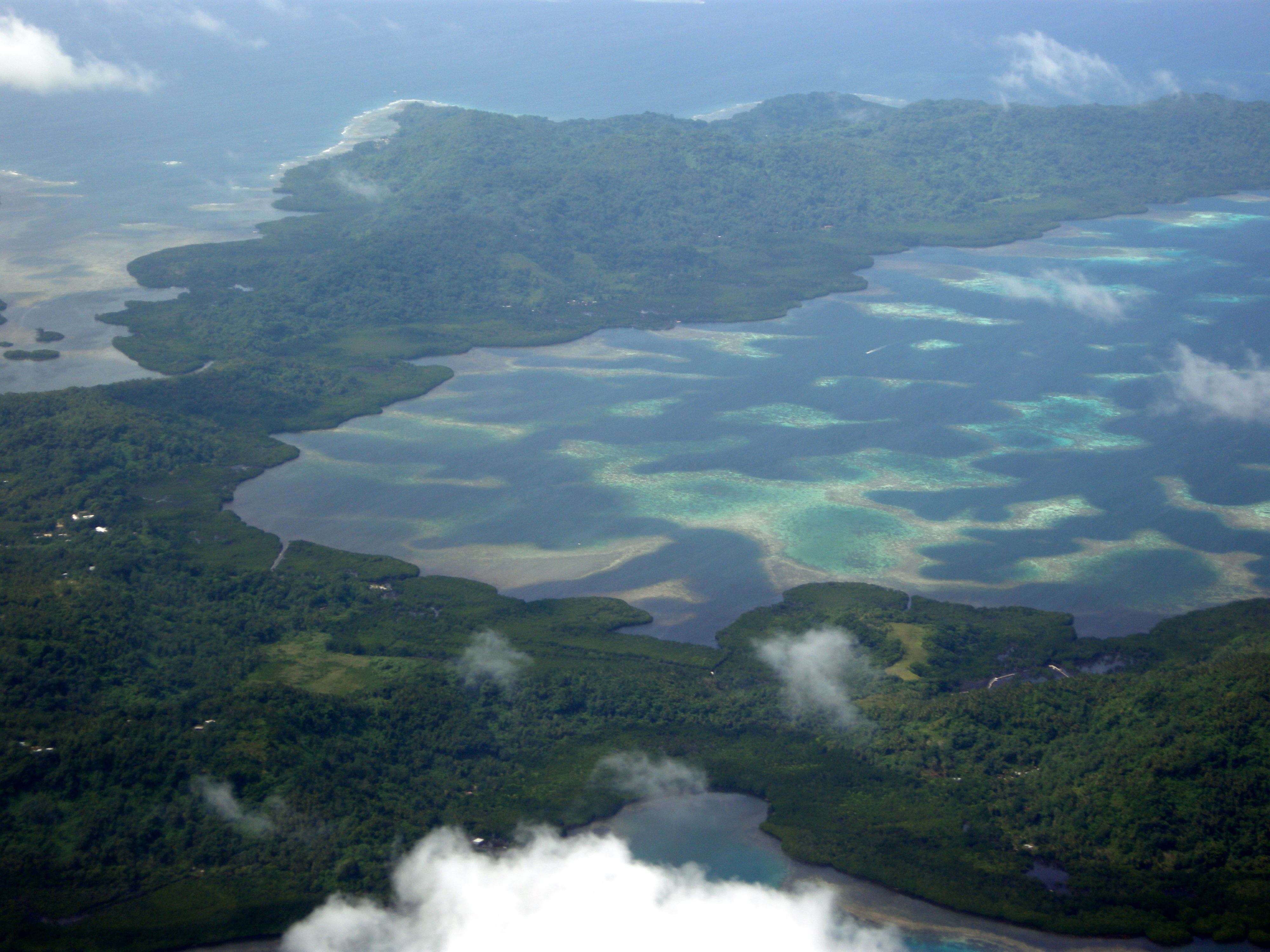 Aerial view of Faichuk islands (Chuuk Lagoon, Federated States of Micronesia). Patta, Tol and Polle Islands.